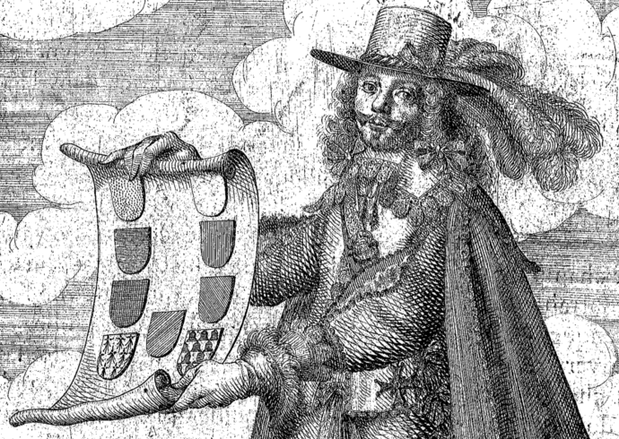 The enlarged hatching table of de la Colombière (1644)